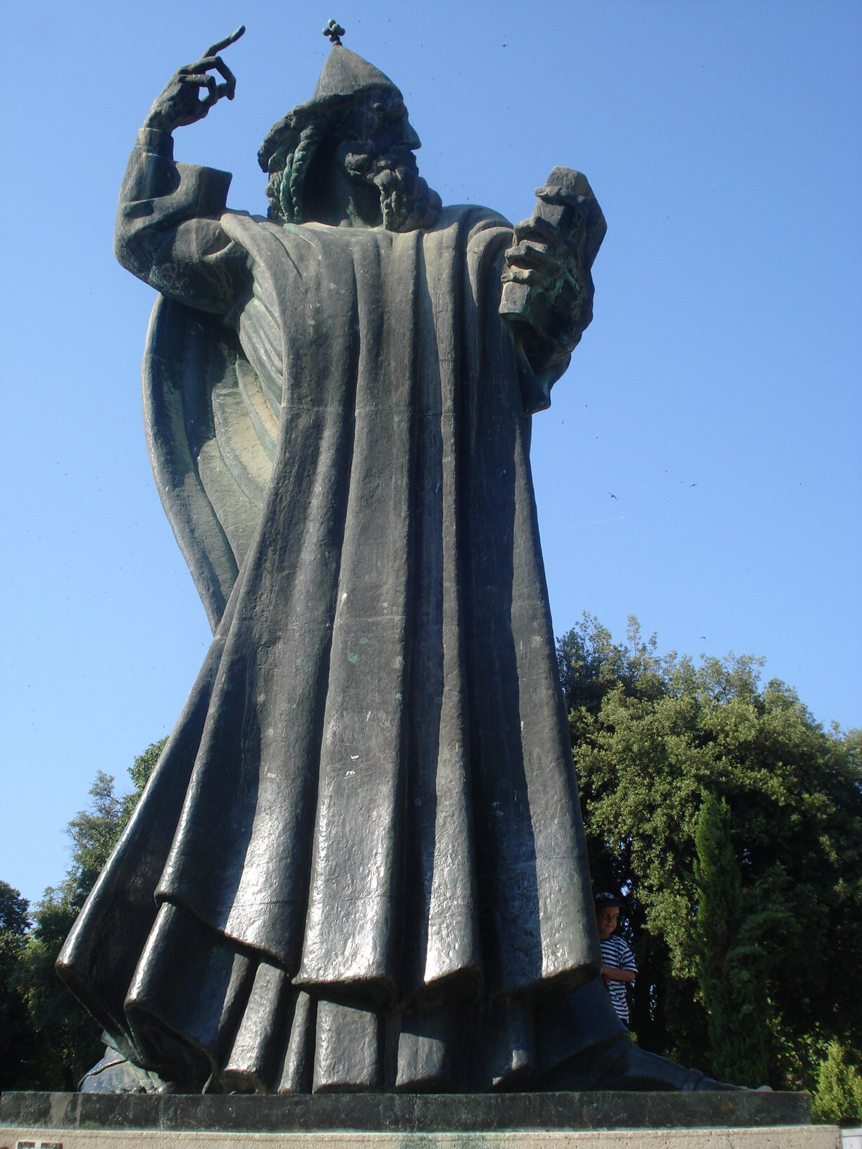 Statue of Gregory, bishop of Nin from the 10th century, in Split (Croatia), sculptor: Ivan Meštrović